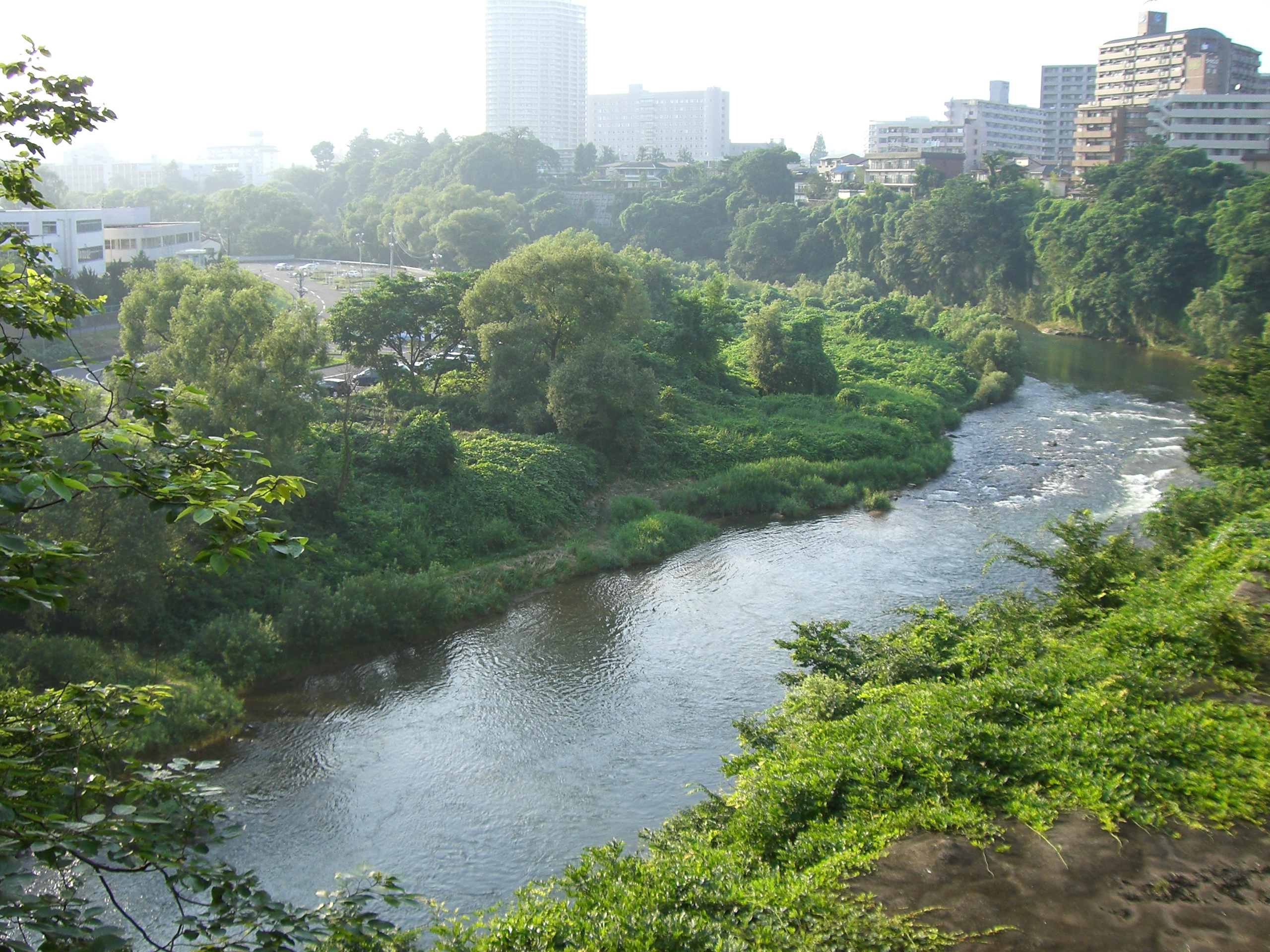 Hirose river of Sendai city